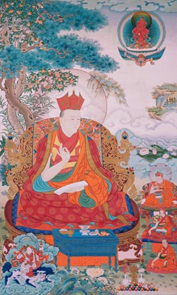 Chokyi Dhondrup